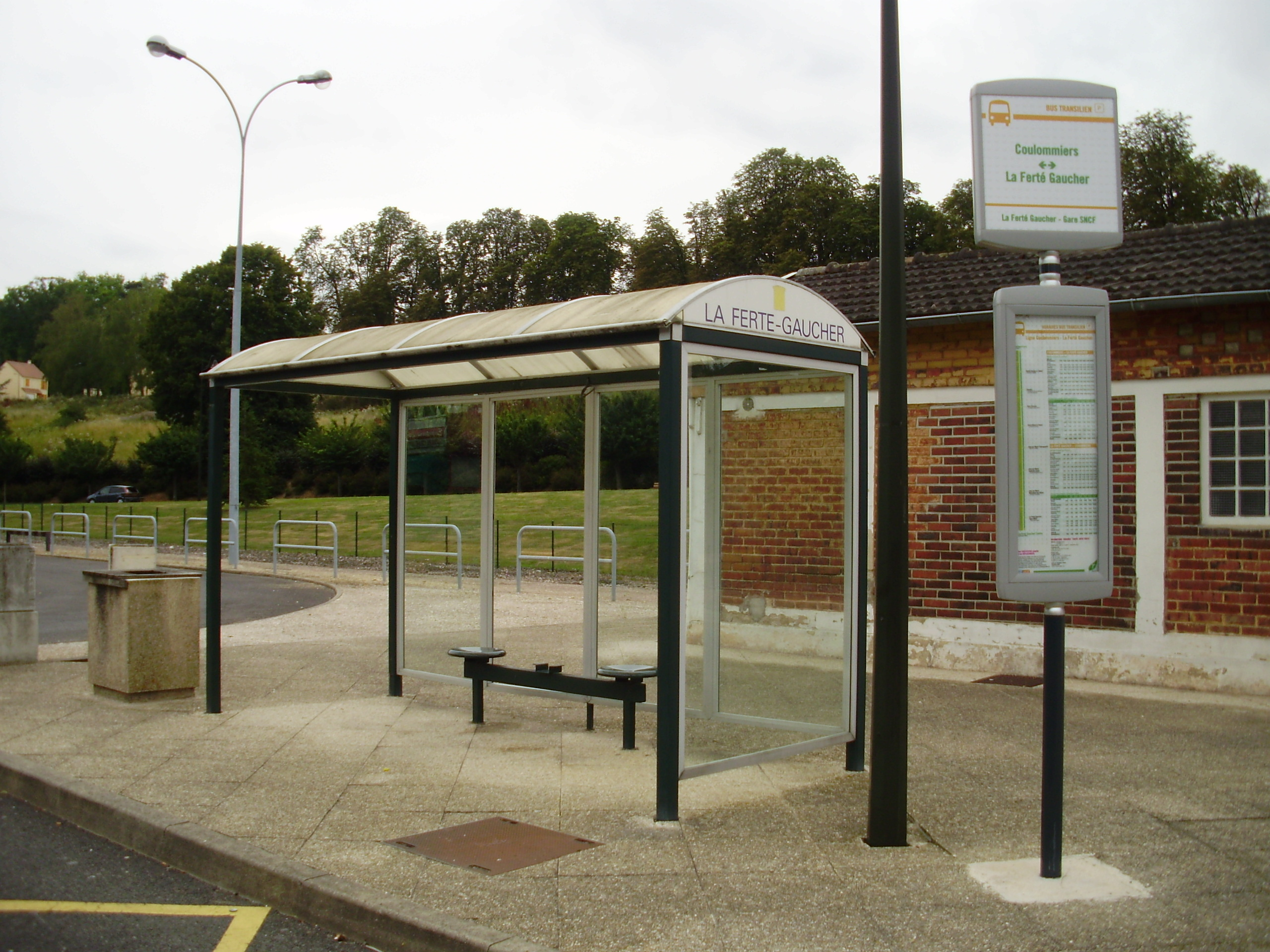 Transilien bus stop near the station of La Ferté-Gaucher